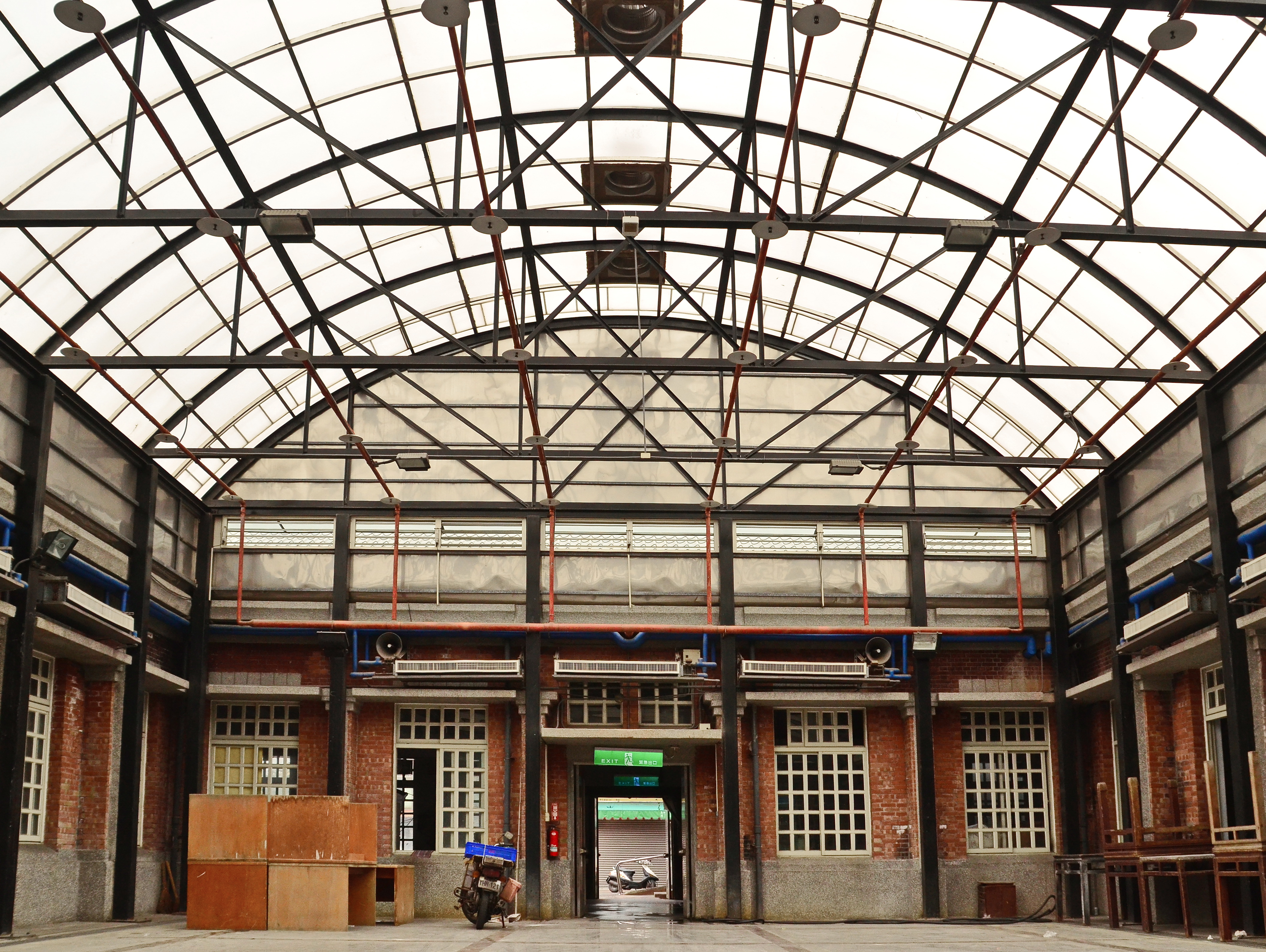 Beidou Red-Brick Traditional Market, Beidou Township, Changhua County, Taiwan.